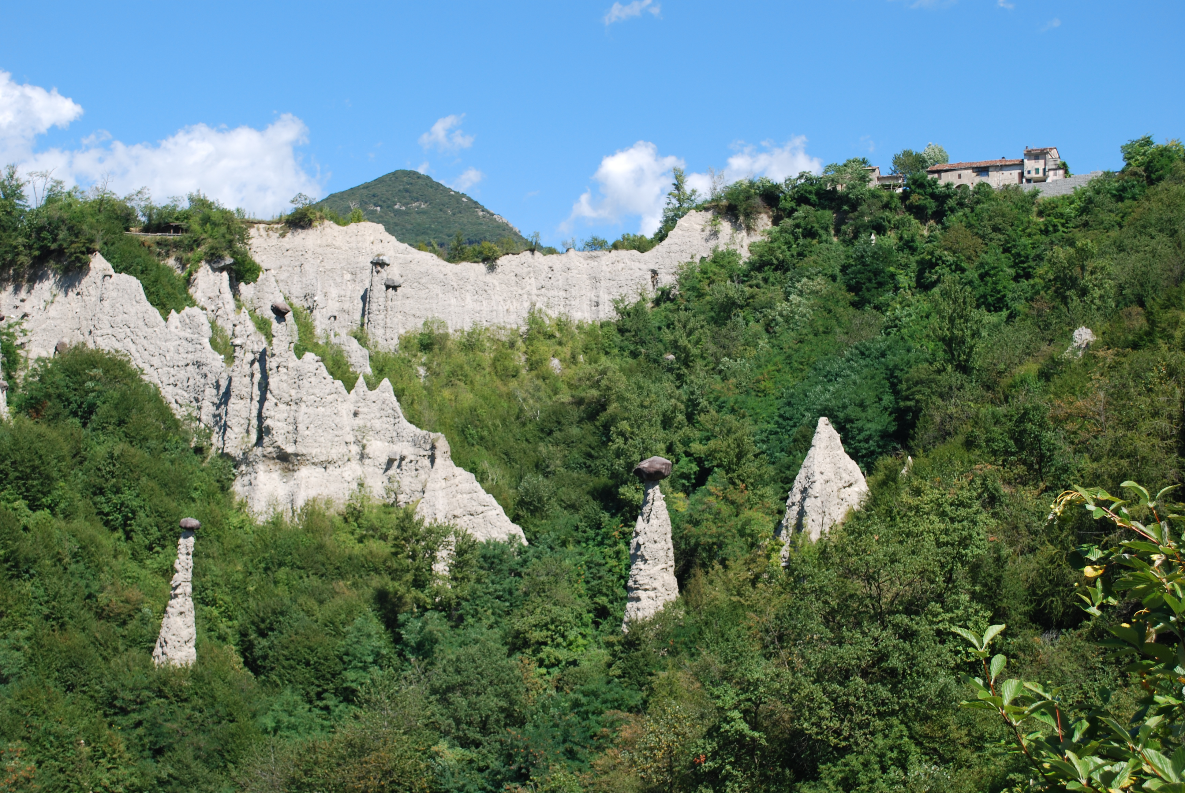 Piramidi di Zone